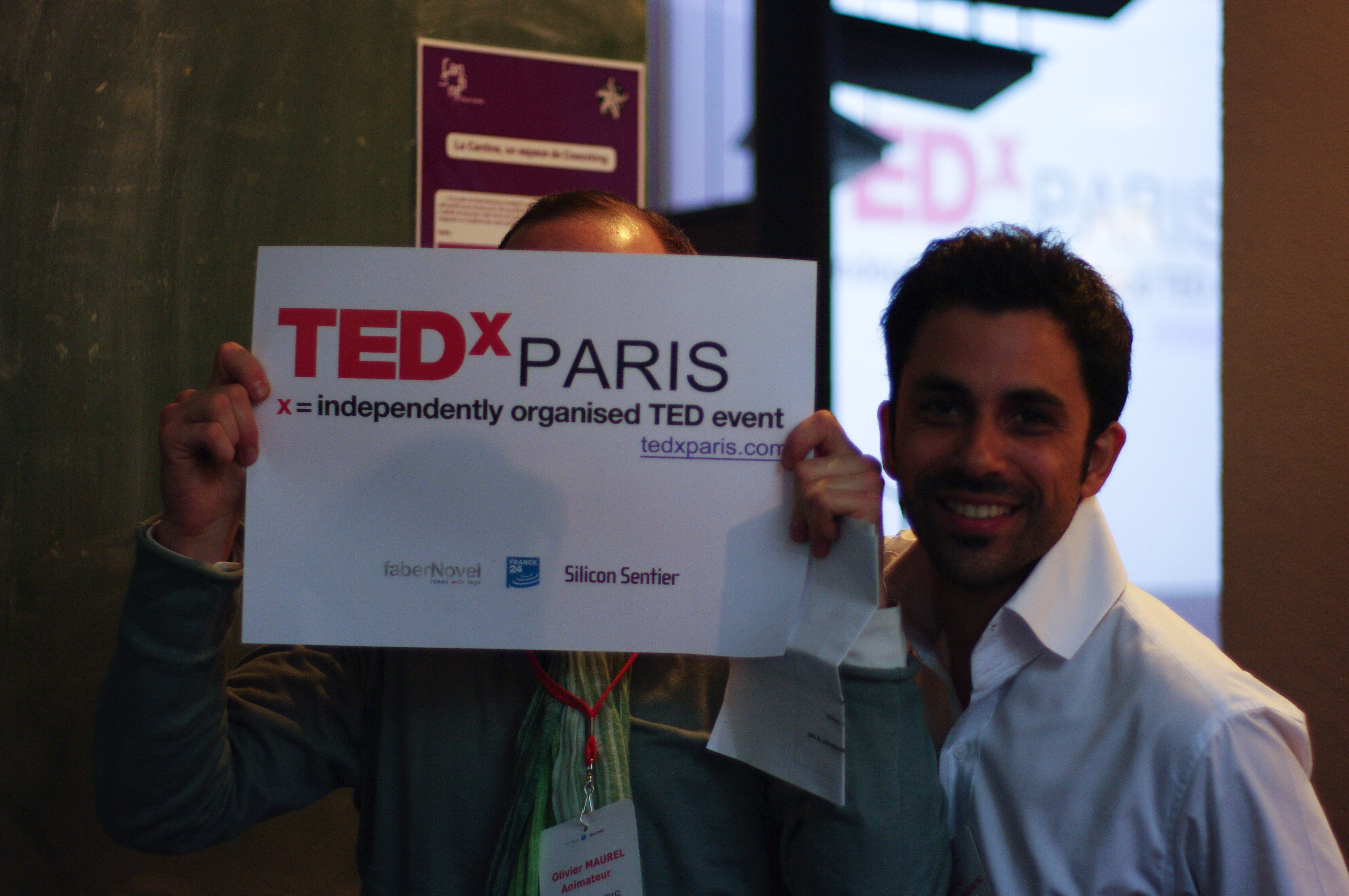 Picture from the launch of Texparis